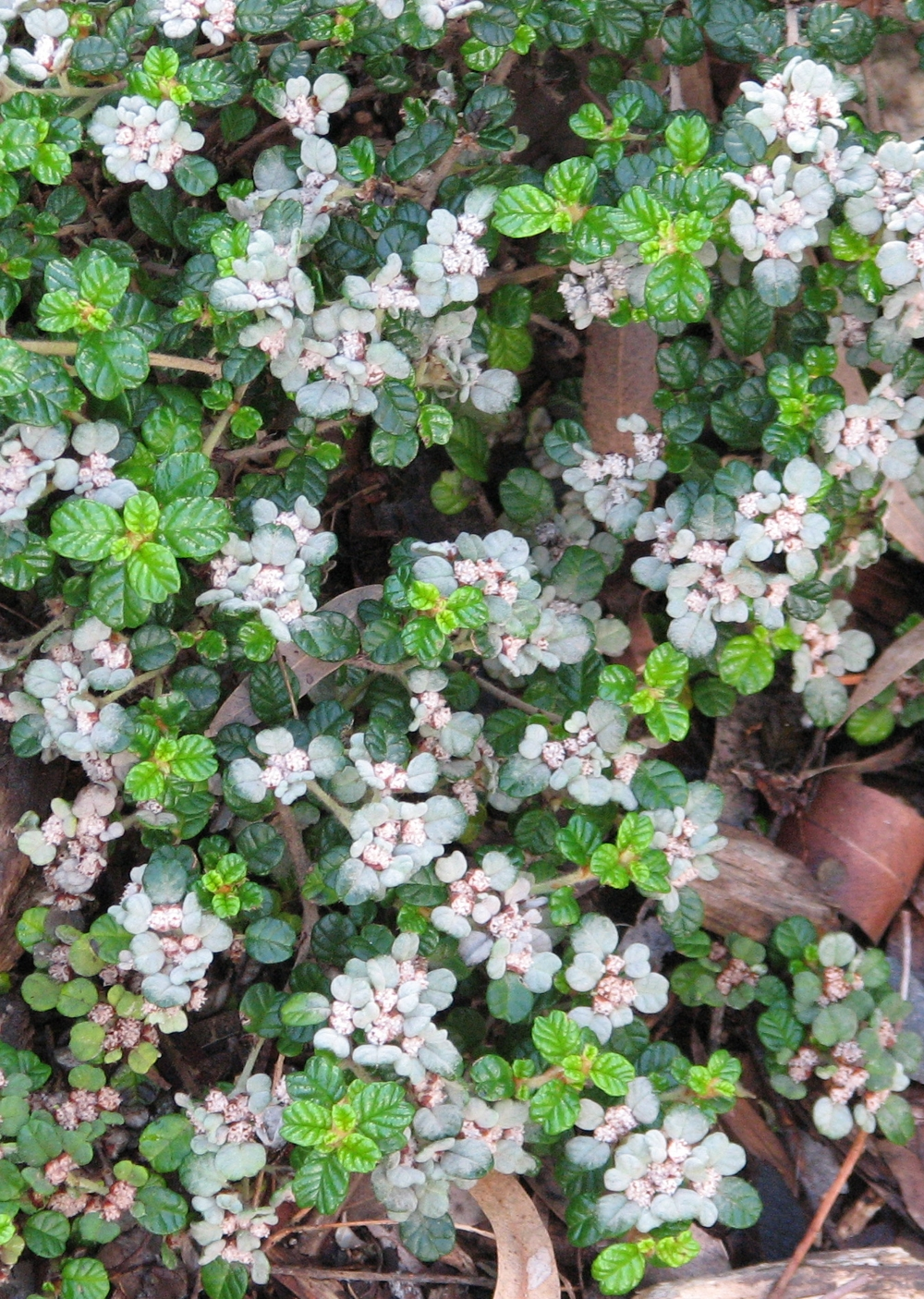 Spyridium parvifolium (prostrate form) (cultivated, labelled) Burnley Gardens, Burnley, Victoria, Australia